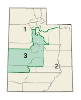 Image adapted from US fed gov't source